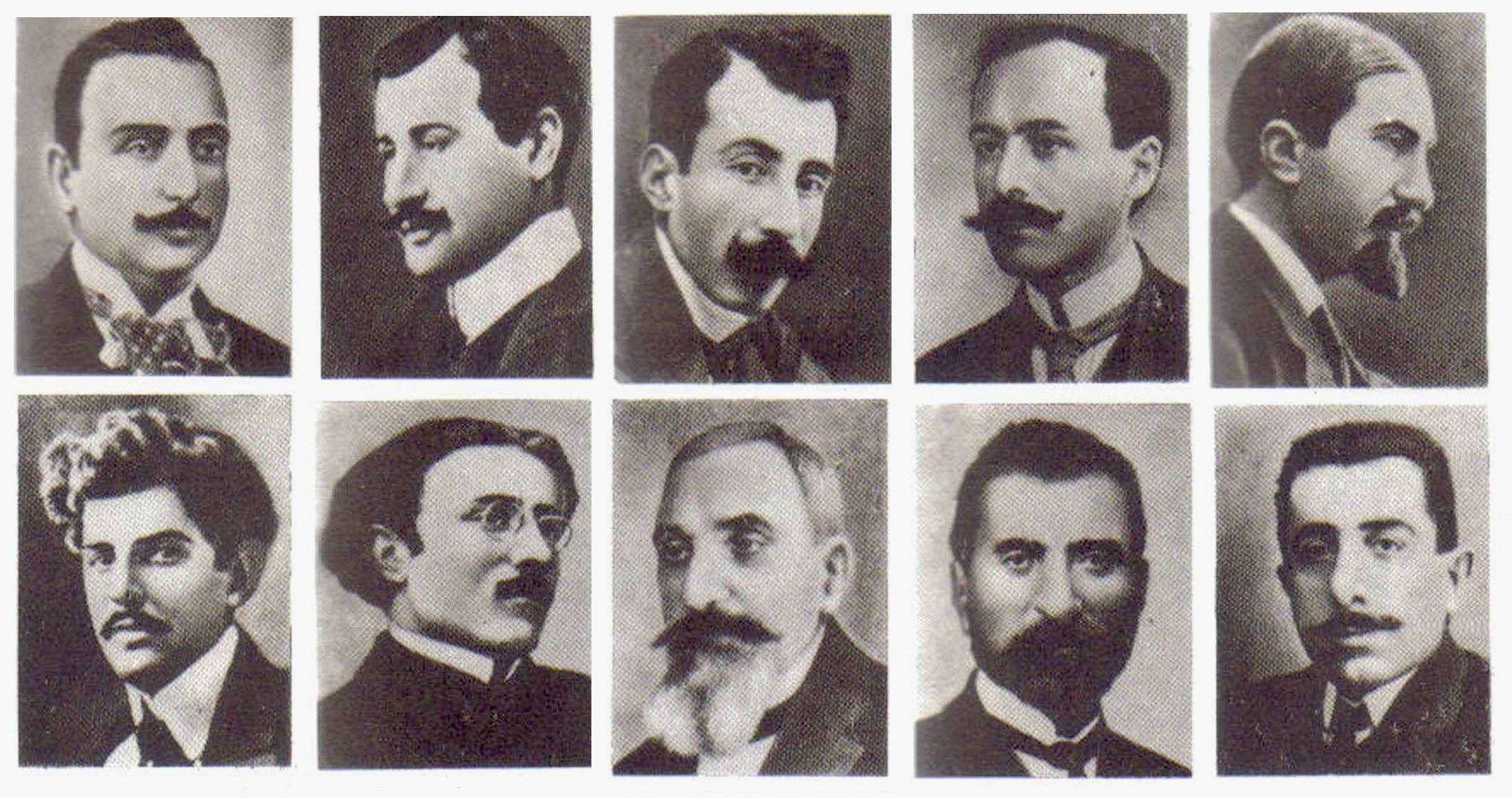 Armenian intellectuals jailed and later executed on the night of April 24, 1915: 1st row: Krikor Zohrab, Daniel Varoujan, Rupen Zartarian, Ardashes Harutunian and Siamanto; 2nd row: Ruben Sevak, Dikran Chökürian, Diran Kelekian, Tlgadintsi, and Erukhan.